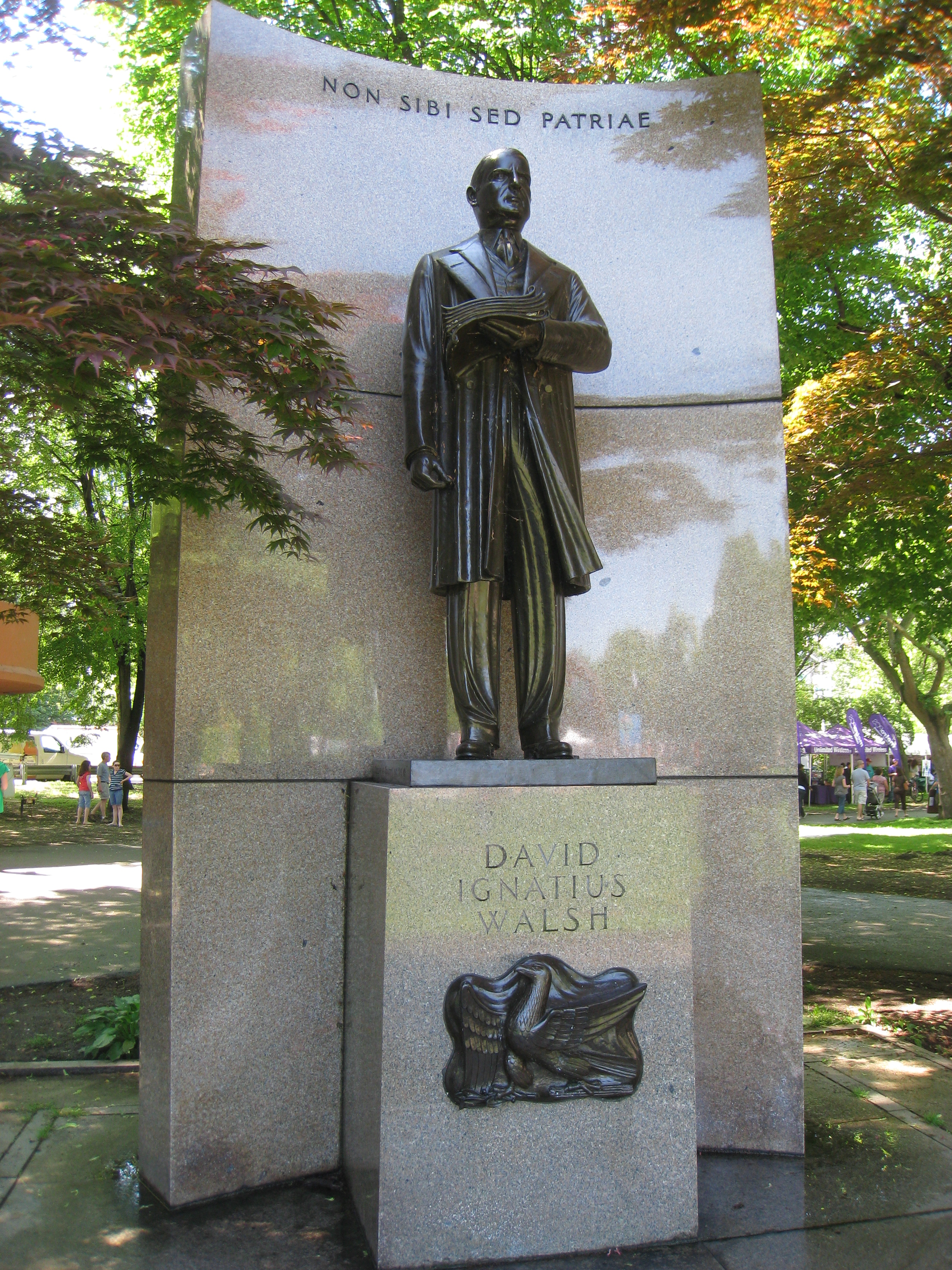 Statue of David Ignatius Walsh on the esplanade, Boston, Massachusetts, USA. Sculpted by Joseph Coletti.